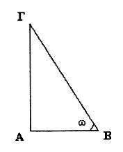 Right triangle